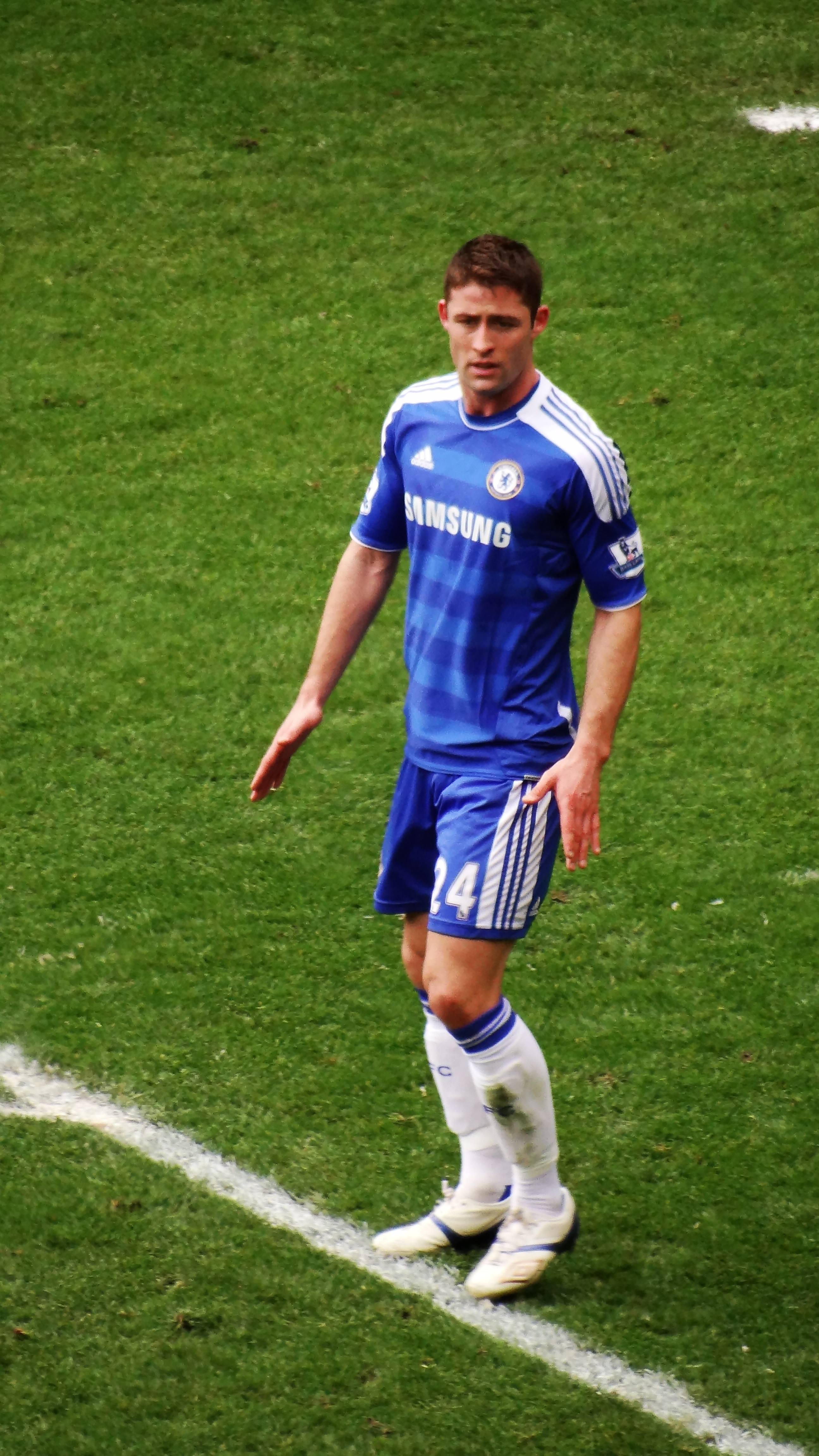 Chelsea defender Gary Cahill